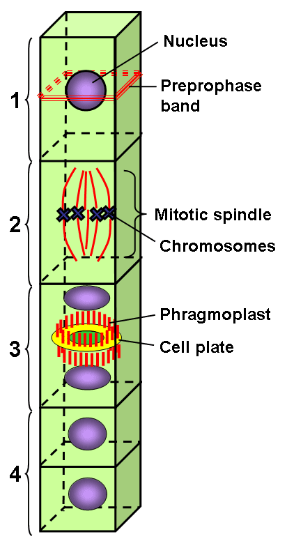 Schematic representation of microtubule arrays typical for mitosis in plant cells: 1) Preprophase with preprophase band visible along the plasma membrane circling the nucleus. 2) Metaphase with acentrosomal mitotic spindle. 3) Telophase with newly formed daughter nuclei, phragmoplast microtubule array and cell plate growing from the center outwards (new cell wall already formed in center). 4) Daughter cells after cytokinesis is complete. References P.H. Raven, R.F. Evert, S.E. Eichhorn (2005): Biology of Plants, 7th Edition, W.H. Freeman and Company Publishers, New York, ISBN 0-7167-1007-2